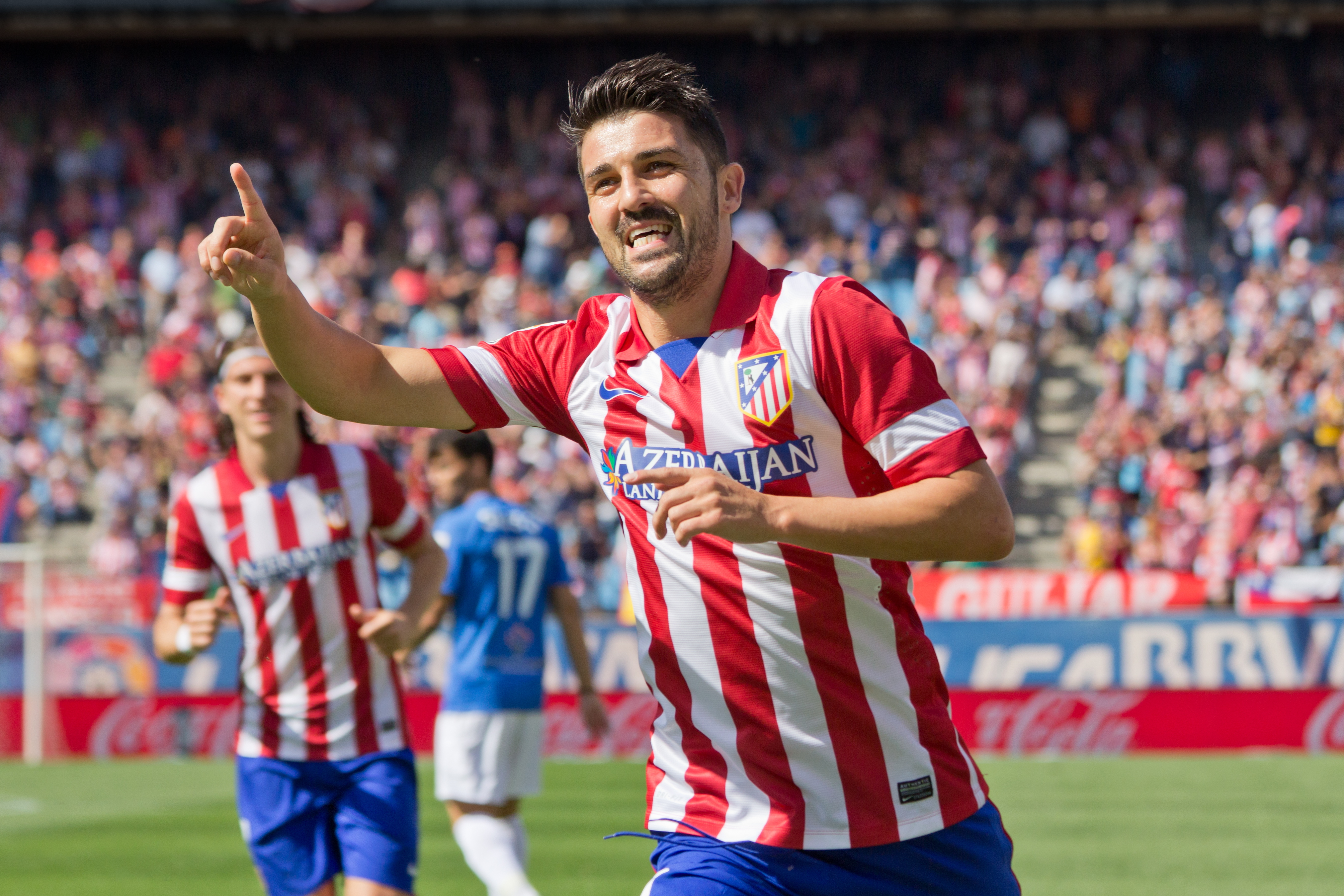 Spanish football player David Villa celebrating after scoring a goal for Atlético de Madrid.